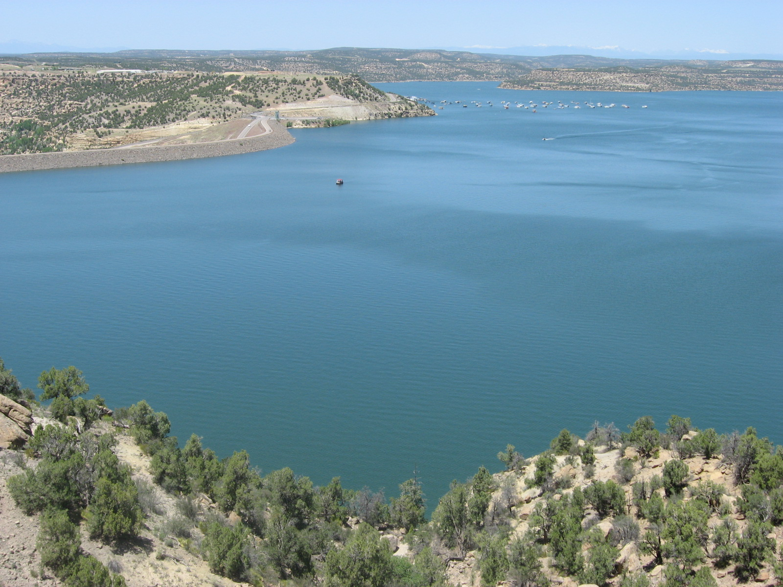 Navajo Reservoir, New Mexico. View looking north toward marina. The Navajo Dam can be seen on the left of the image.